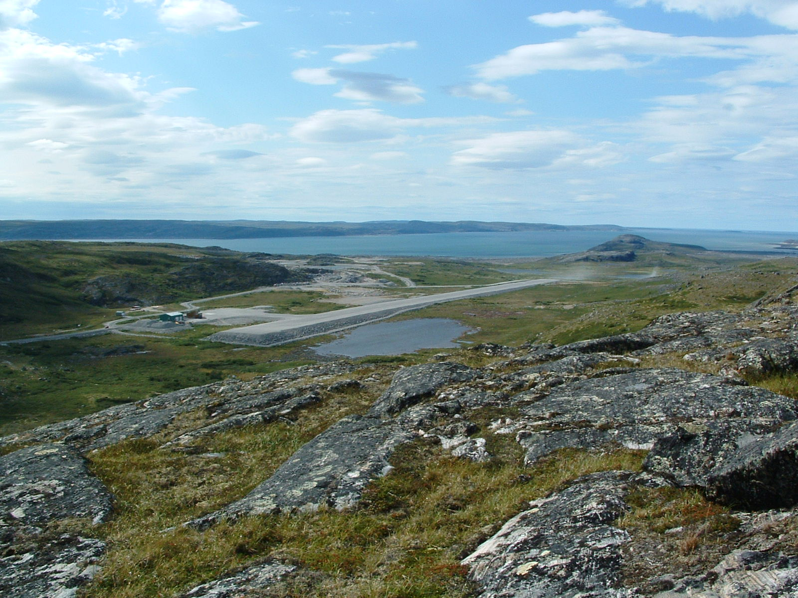 Kangiqsualujjuaq